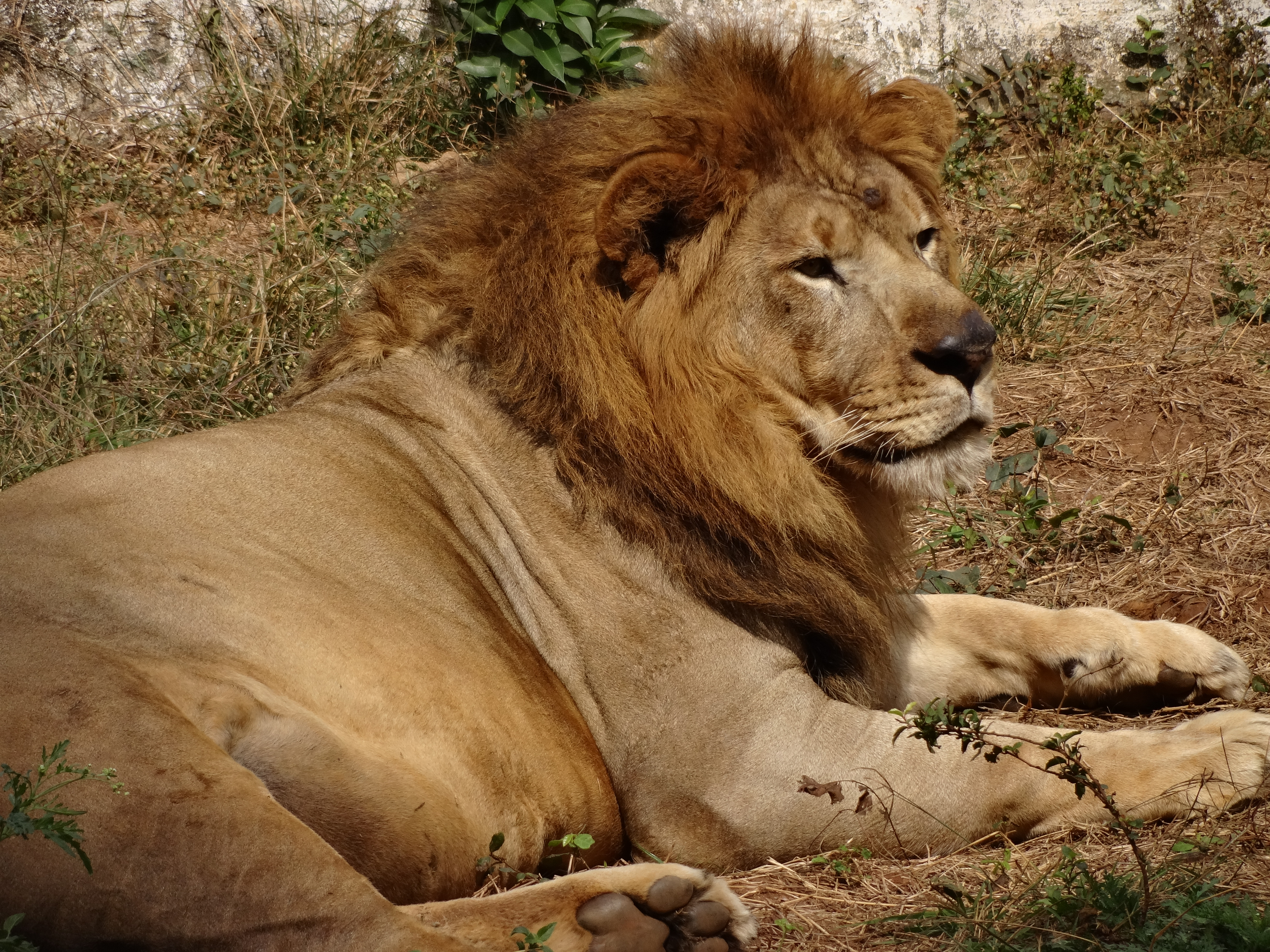 Asiatic lion at Tyavarekoppa Lion and Tiger Safari, located in the Shimoga district of the state of Karnataka, India.